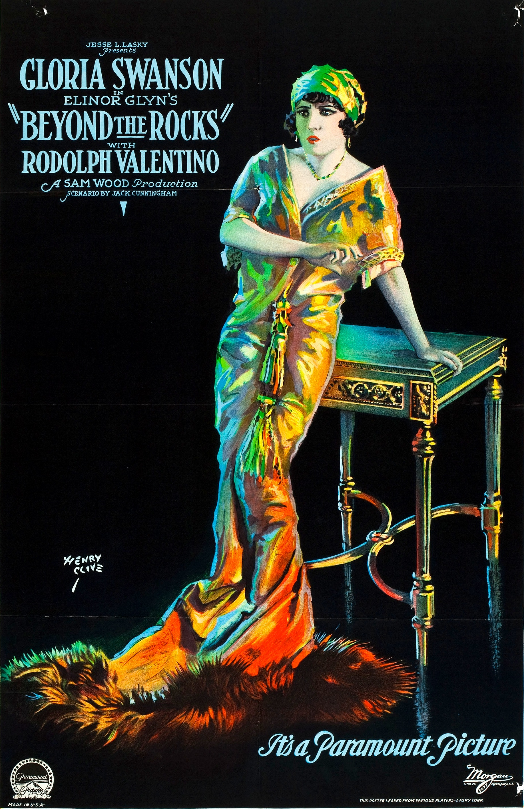 Beyond the Rocks is a 1922 American silent romantic drama film directed by Sam Wood, starring Rudolph Valentino and Gloria Swanson. This is a movie poster.